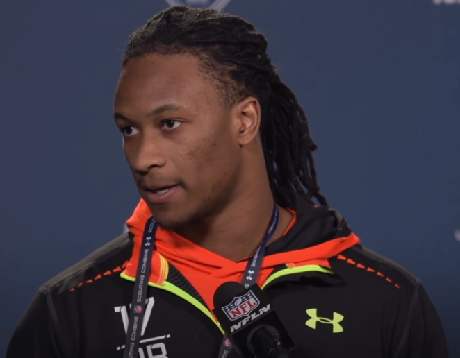 In 2015